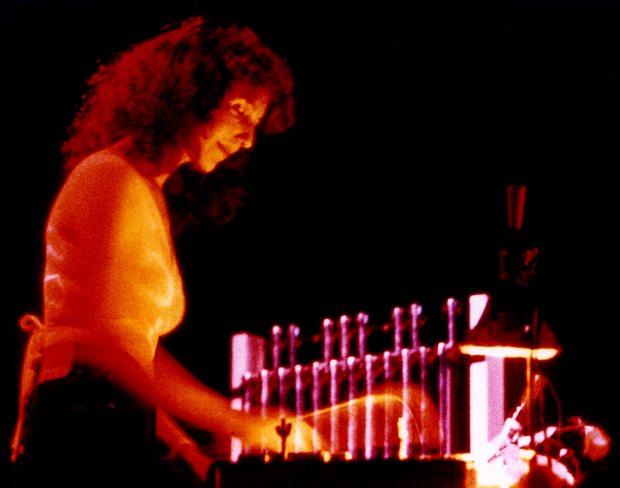 Photograph of Ruth Underwood playing with Frank Zappa at a Mother's Day concert in NYC, probably at the Palladium. Date of photo approximate.